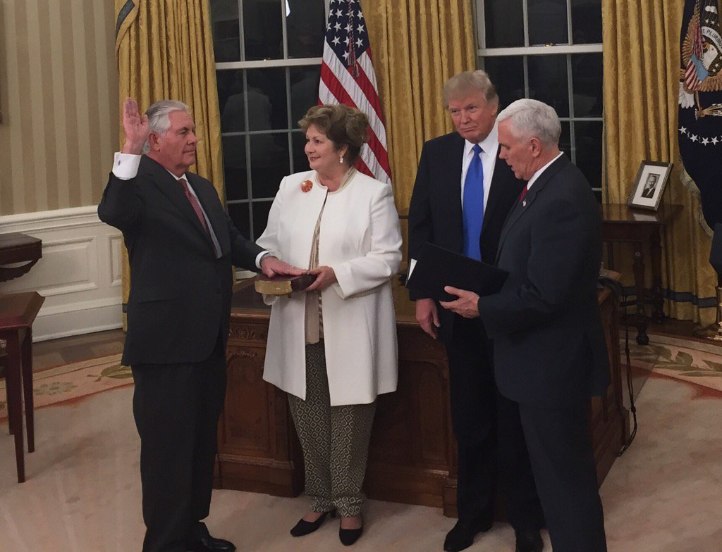 It is my tremendous honor to join @POTUS to administer Oath of Office to our new Secretary of State Rex Tillerson.